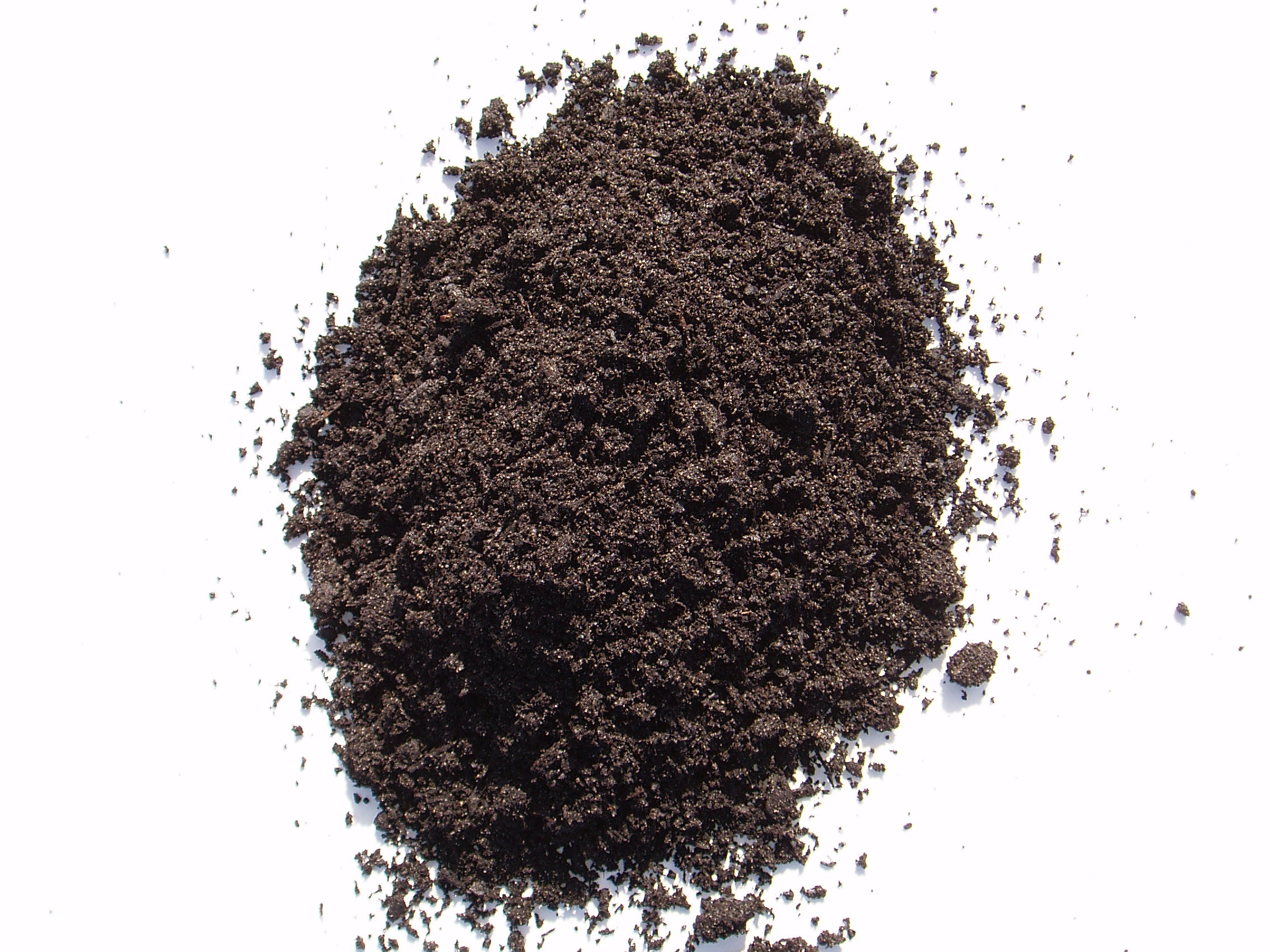 soil